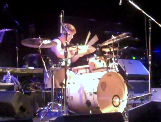 Cropped image of File:Animals as Leaders3.jpg